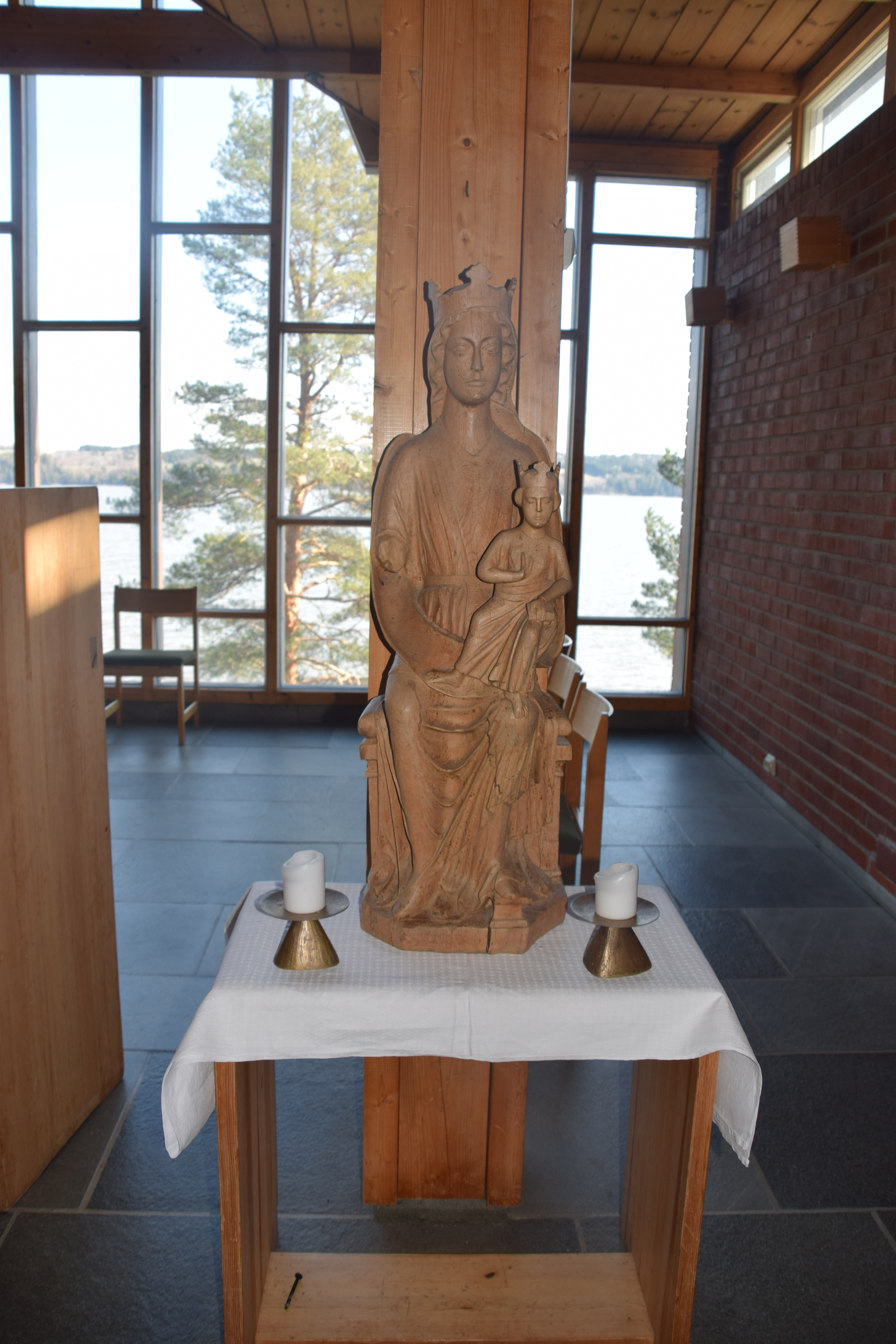 Buildings belonging to the Mariaholm congres center in Østfold county in Norway.